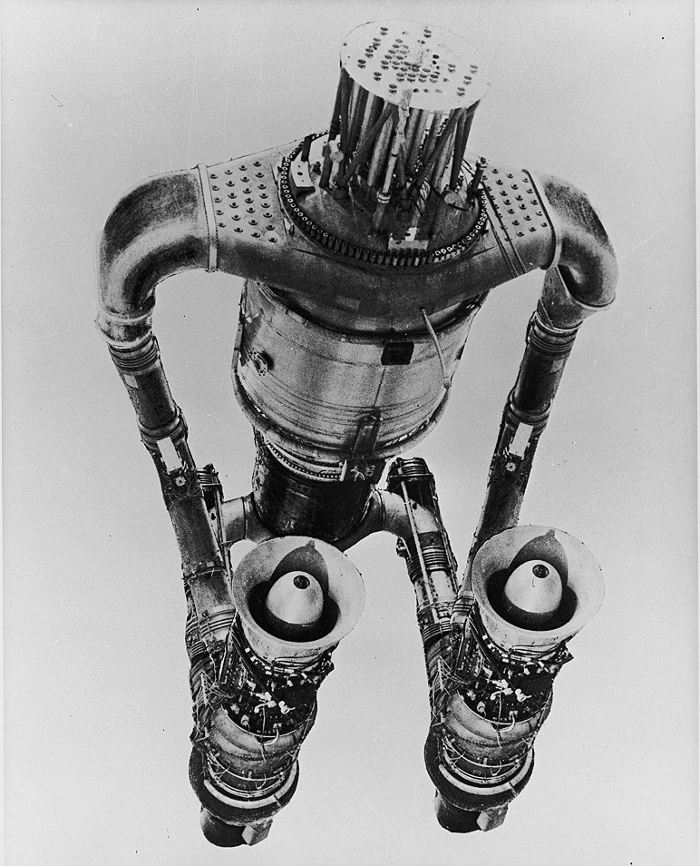 Heat Transfer Reactor Experiment-3. A nuclear powered jet engine developed as part of the Aircraft Nuclear Propulsion program.